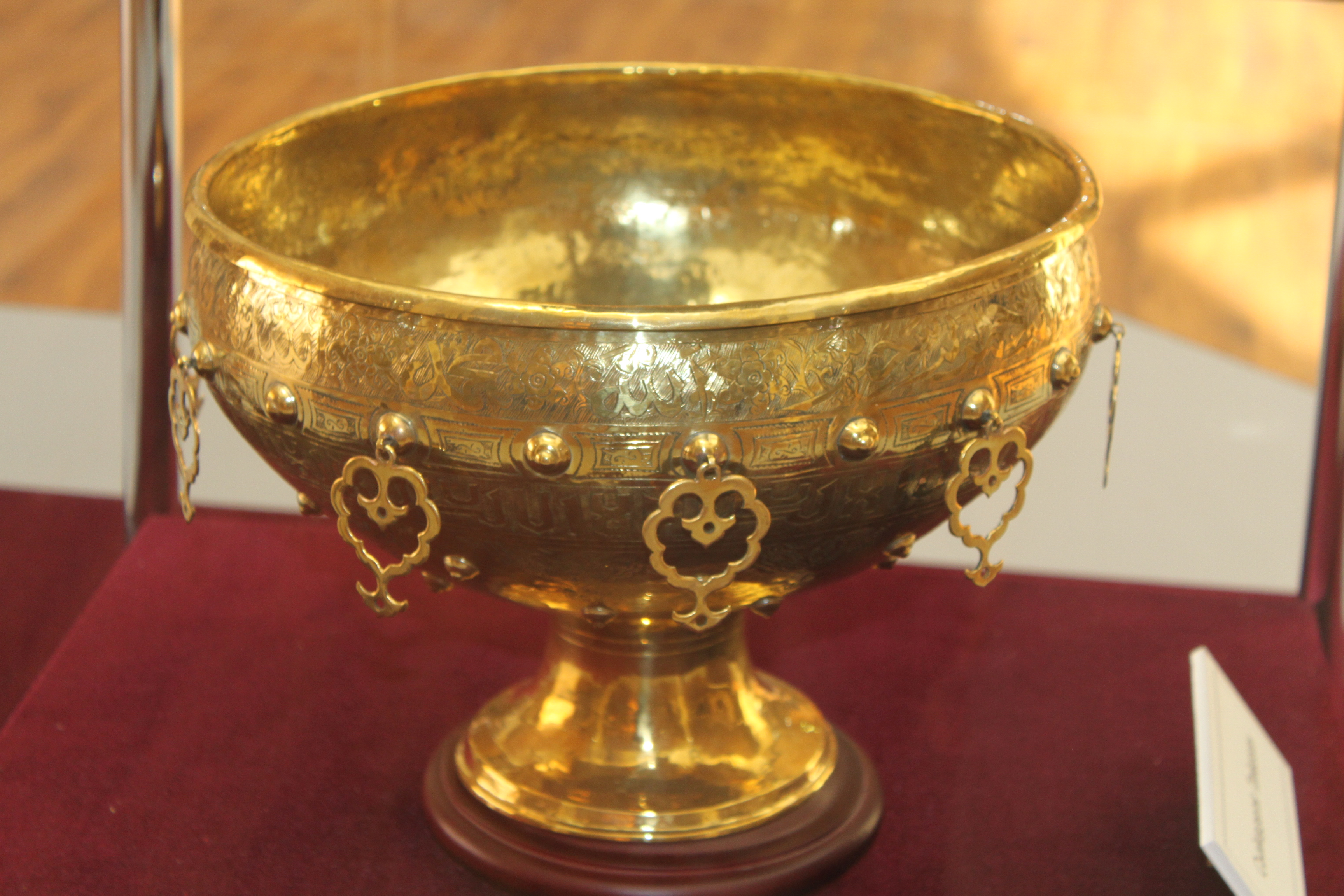 Тайазан